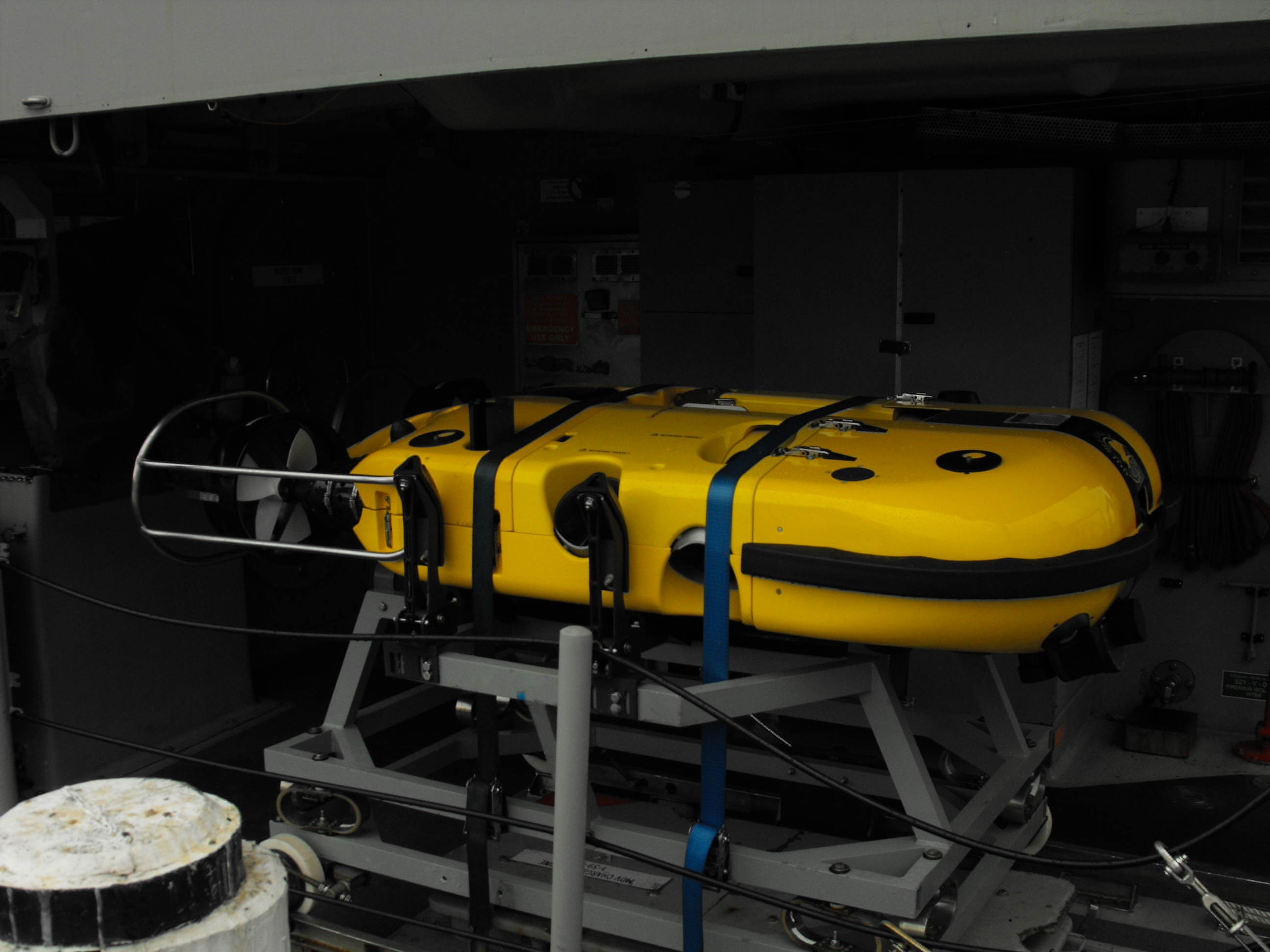 One of two Double Eagle mine-disposal remote-operated vehicles carried by the minehunter HMAS Yarra